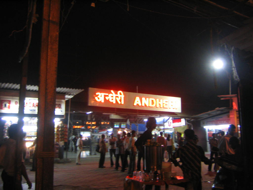 A picture of Andheri station (Railway station of Mumbai) at night